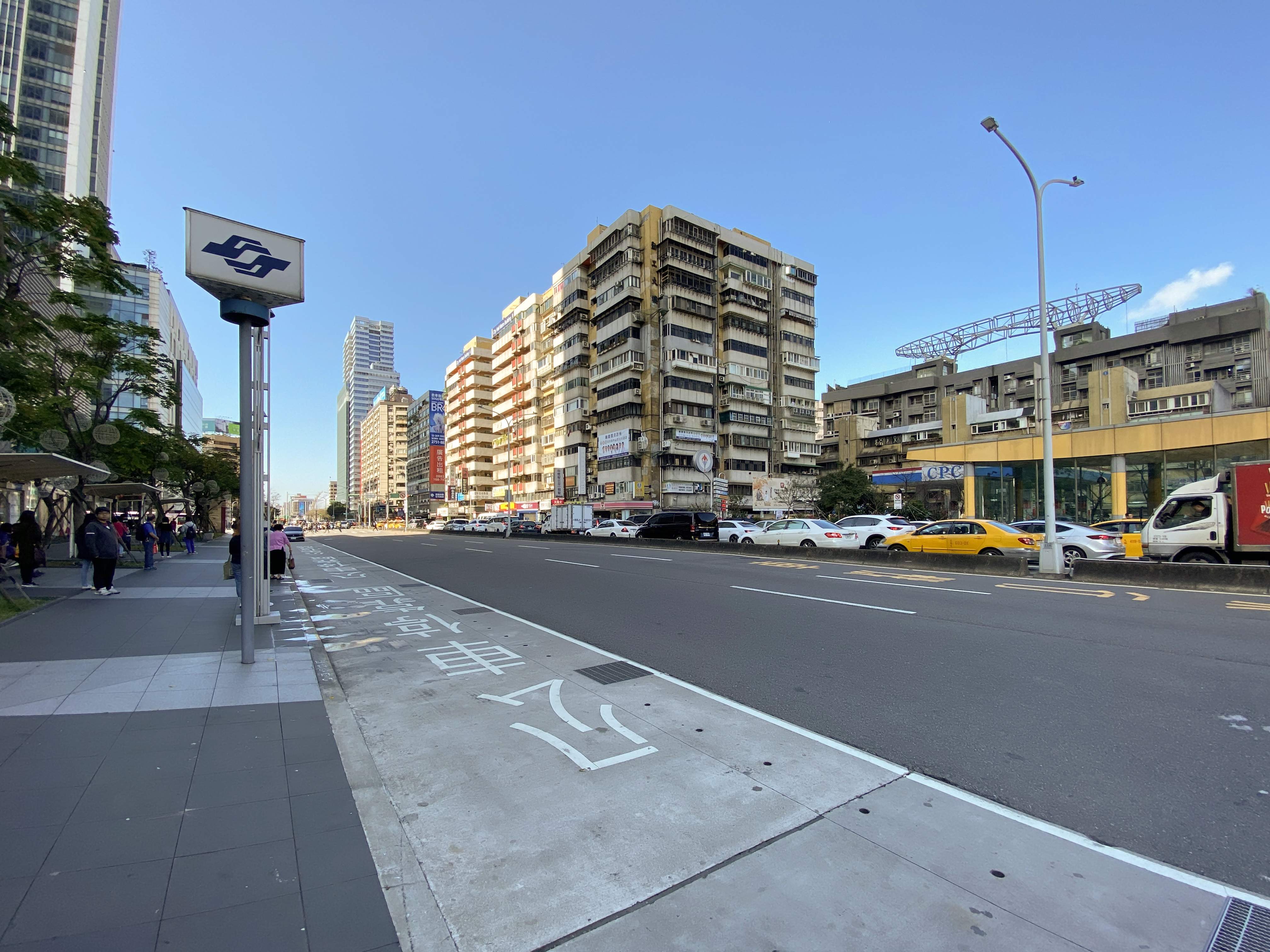 Zhongxiao East Road